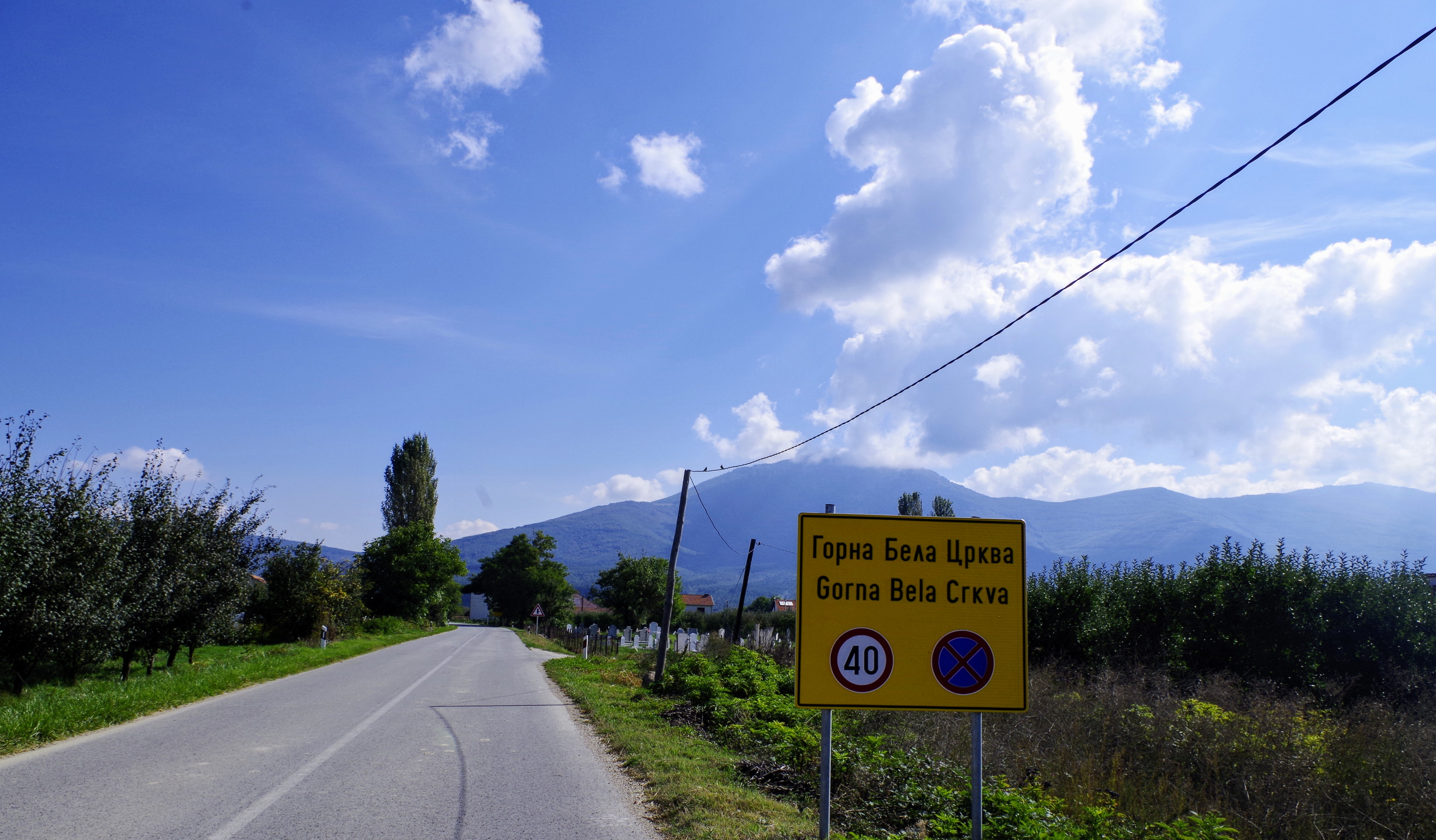 View of the village Gorna Bela Crkva